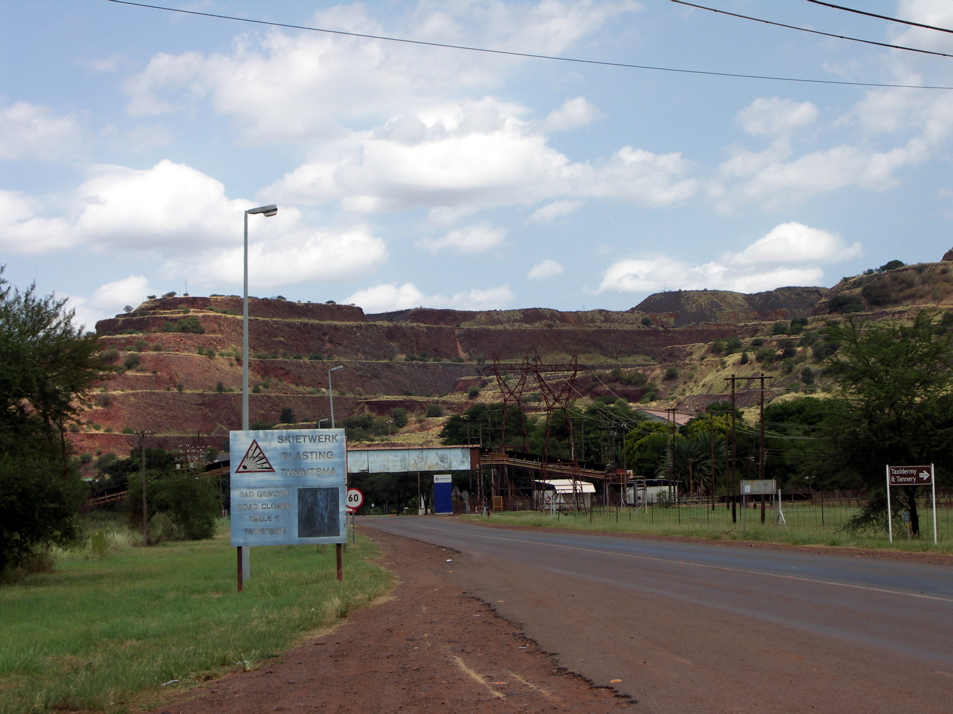 Iron ore mining at Thabazimbi, Limpopo, South Africa